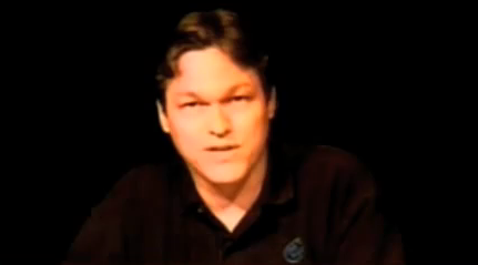 Picture of Jeff Dee, co-host of the public-access TV-show The Atheist Experience.